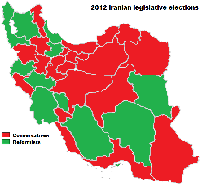 2012 Iranian leggislative election map.jpg.png